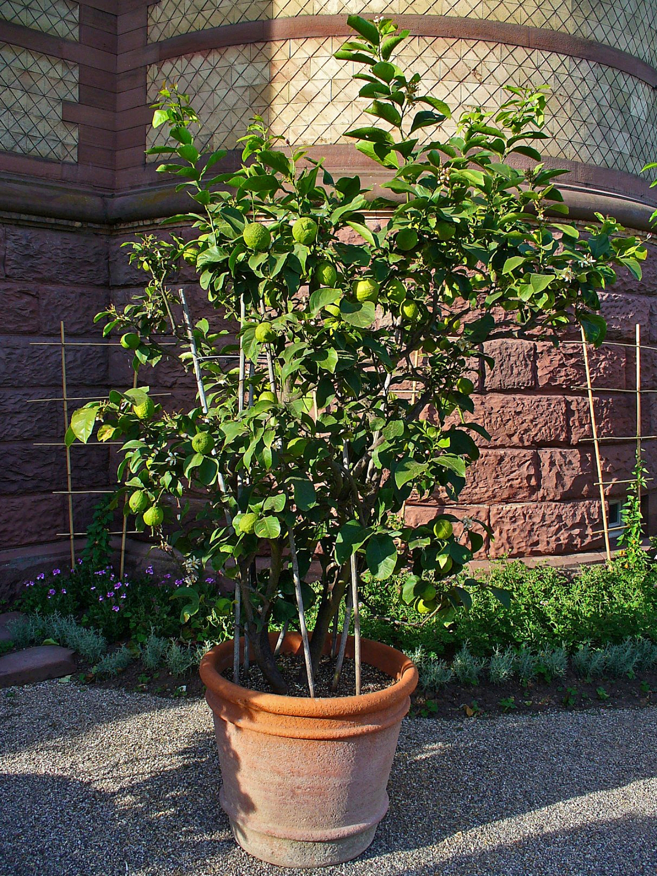 Citrus x limon, Rutaceae, lemon, habitus; Botanical Garden Karlsruhe, Germany.